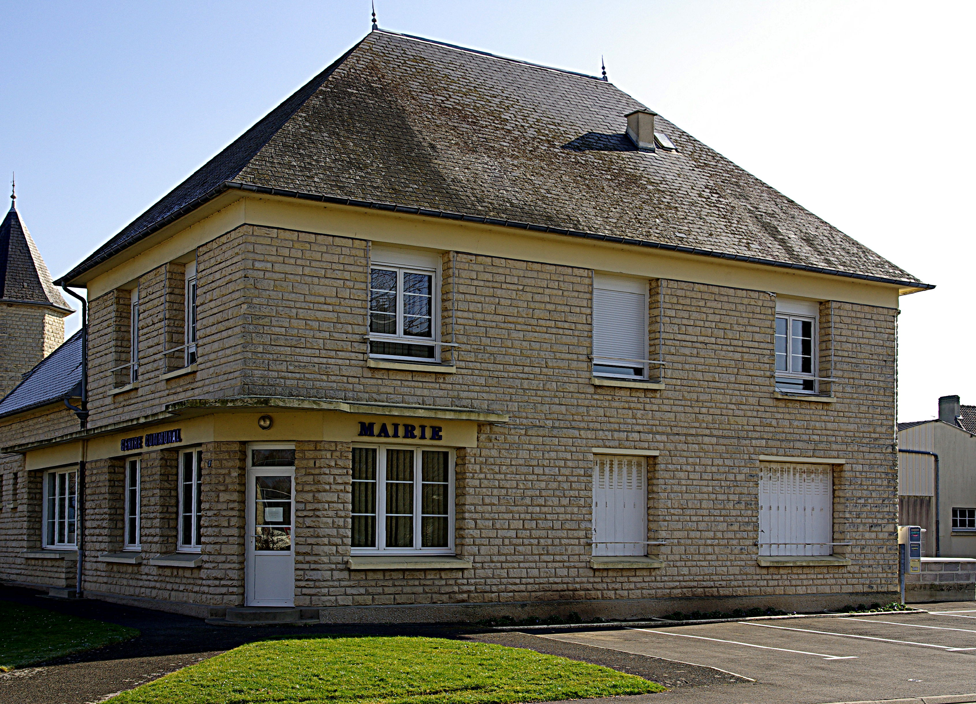 Town hall of Rocquancourt (14) France